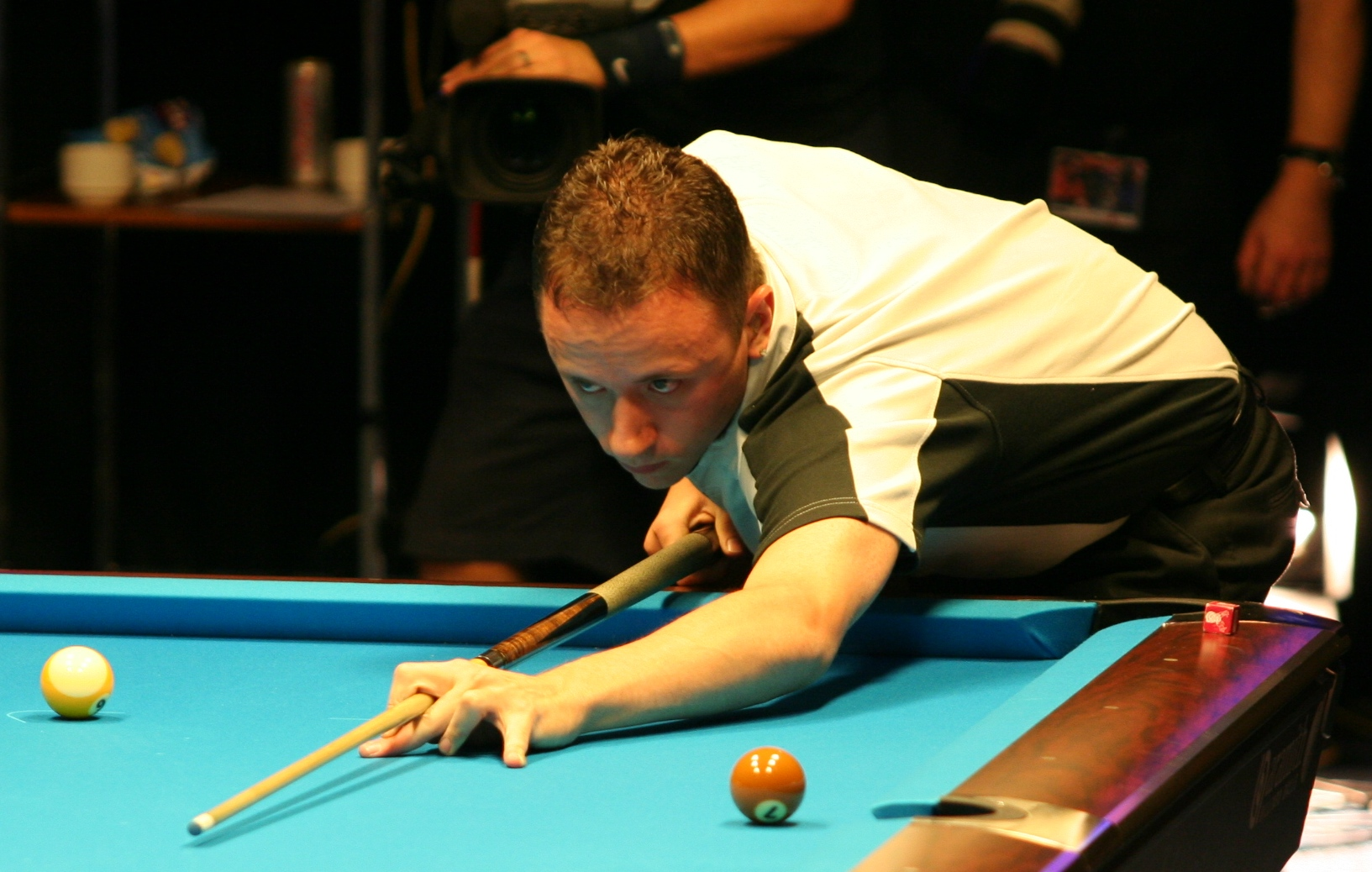 US-american pool player Shane van Boening at the Mosconi Cup 2008 in Malta.